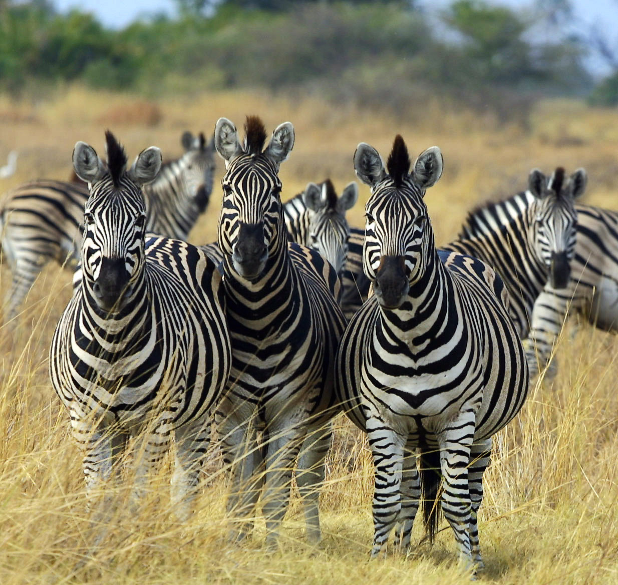 Plains Zebras (Equus quagga), more specifically the Damara subspecies (Equus quagga antiquorum) in Okavango, Botswan in 2002.